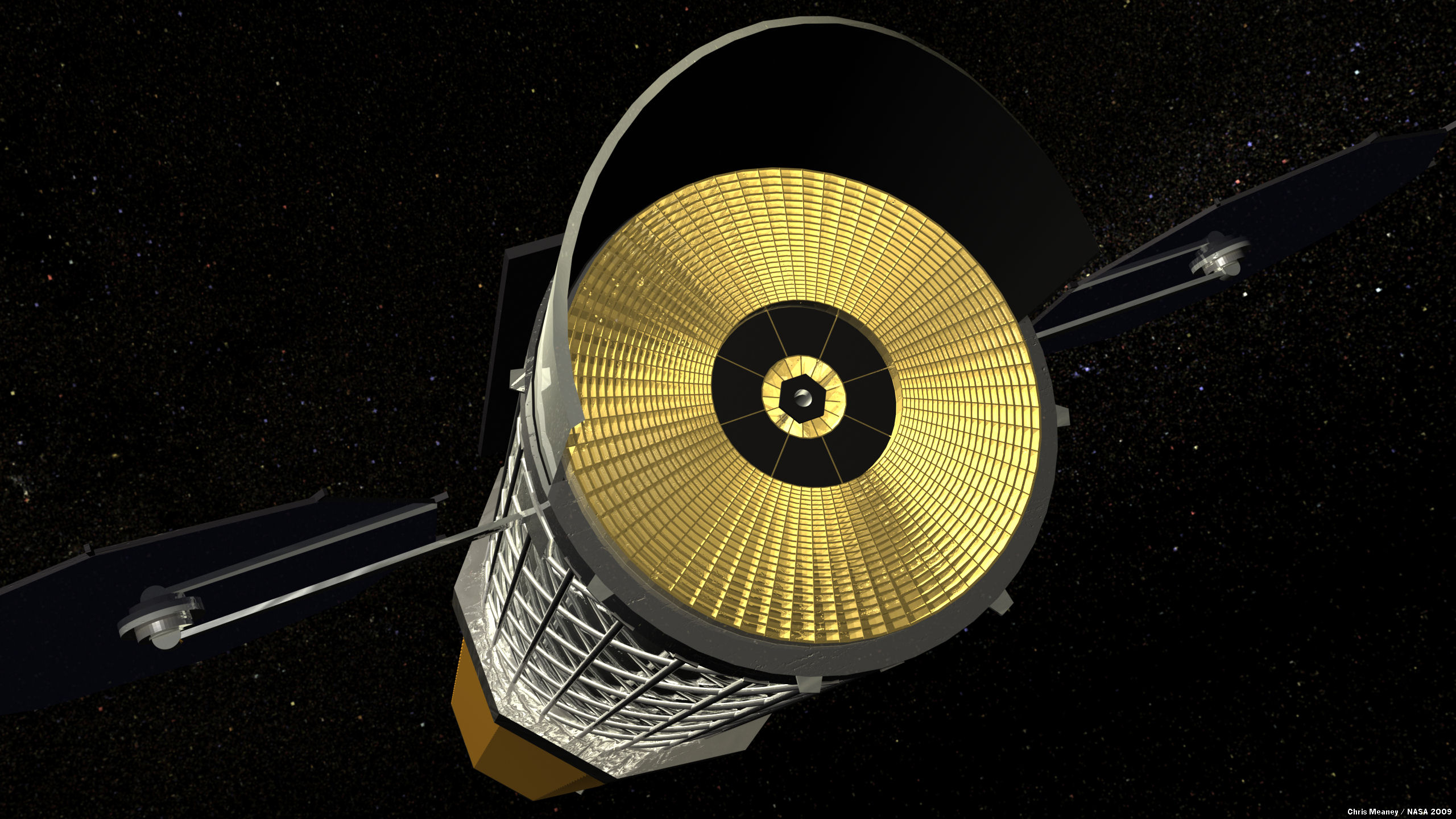 IXO artists expression, credit NASA